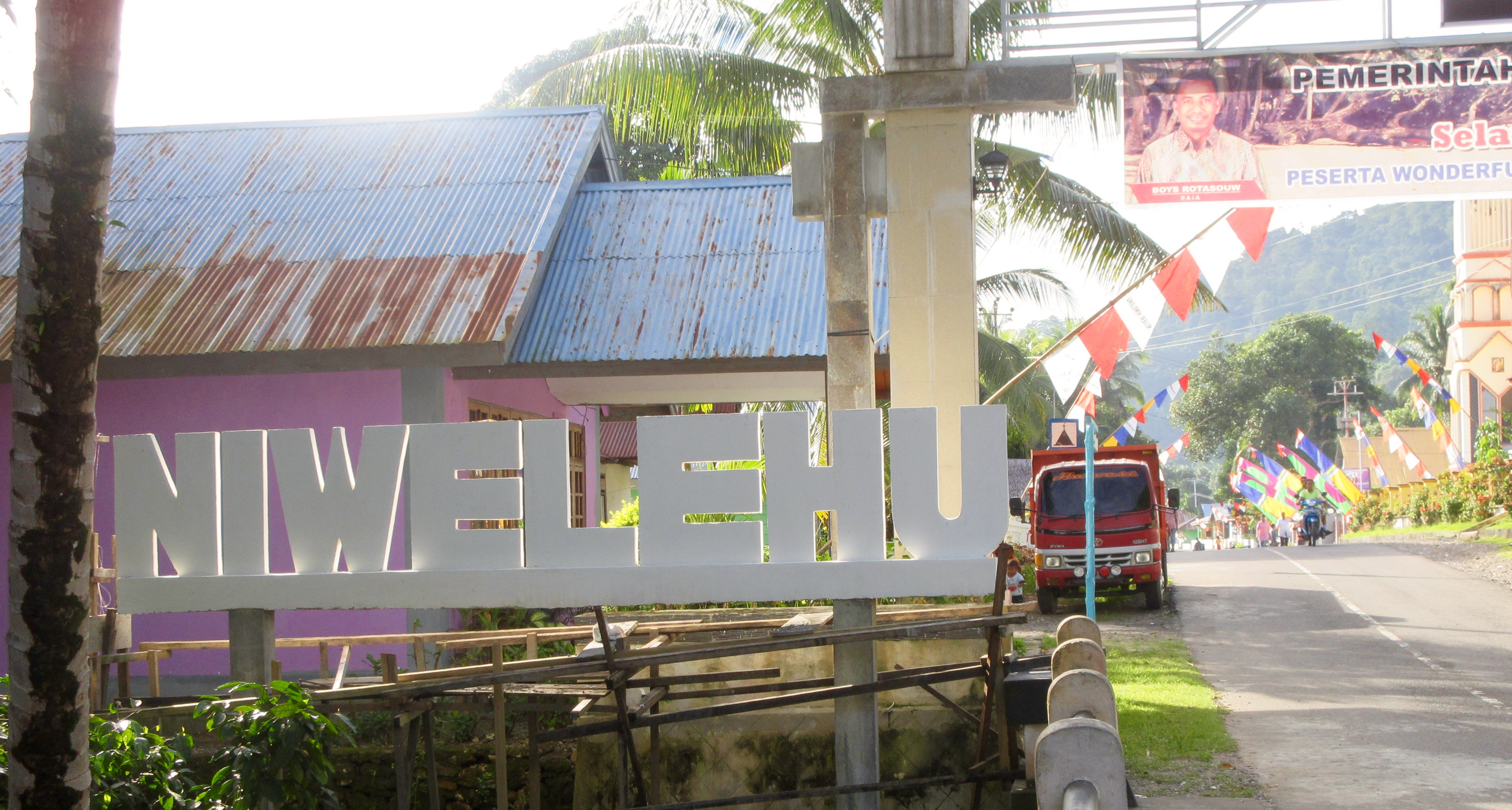 Niwelehu can be recognized with the help of the name at the gate entrance